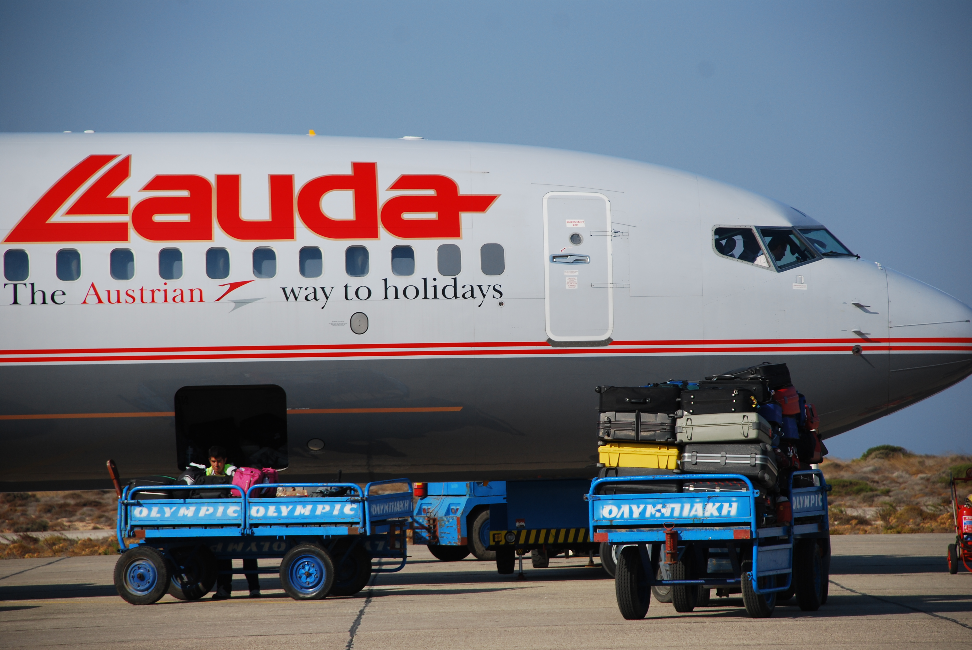 Lauda Air Boeing 737-800 OE-LNT shortly after landing in Karpathos, Greece (LGKP)